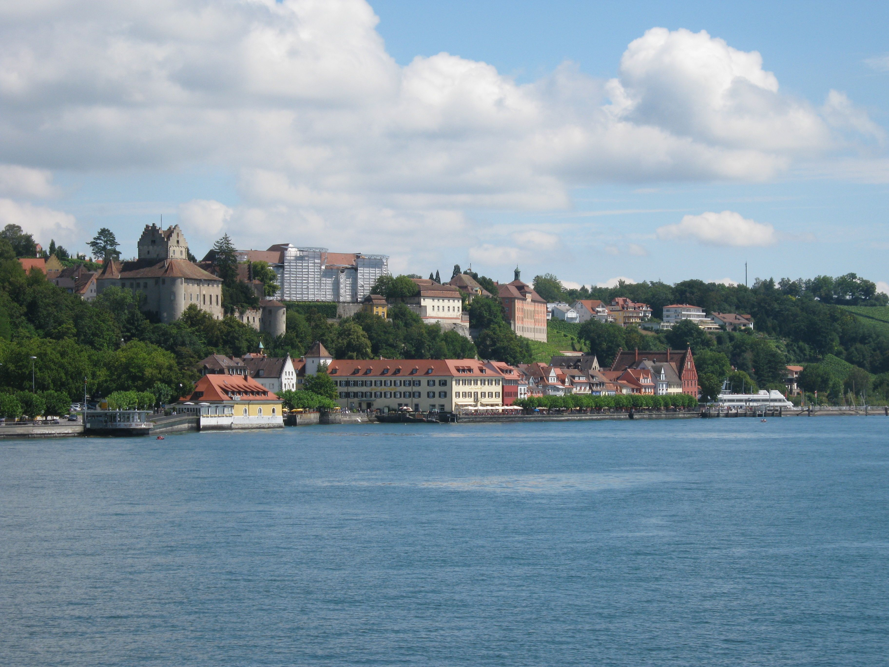 Meersburg approaching from ship, Bodensee, Germany